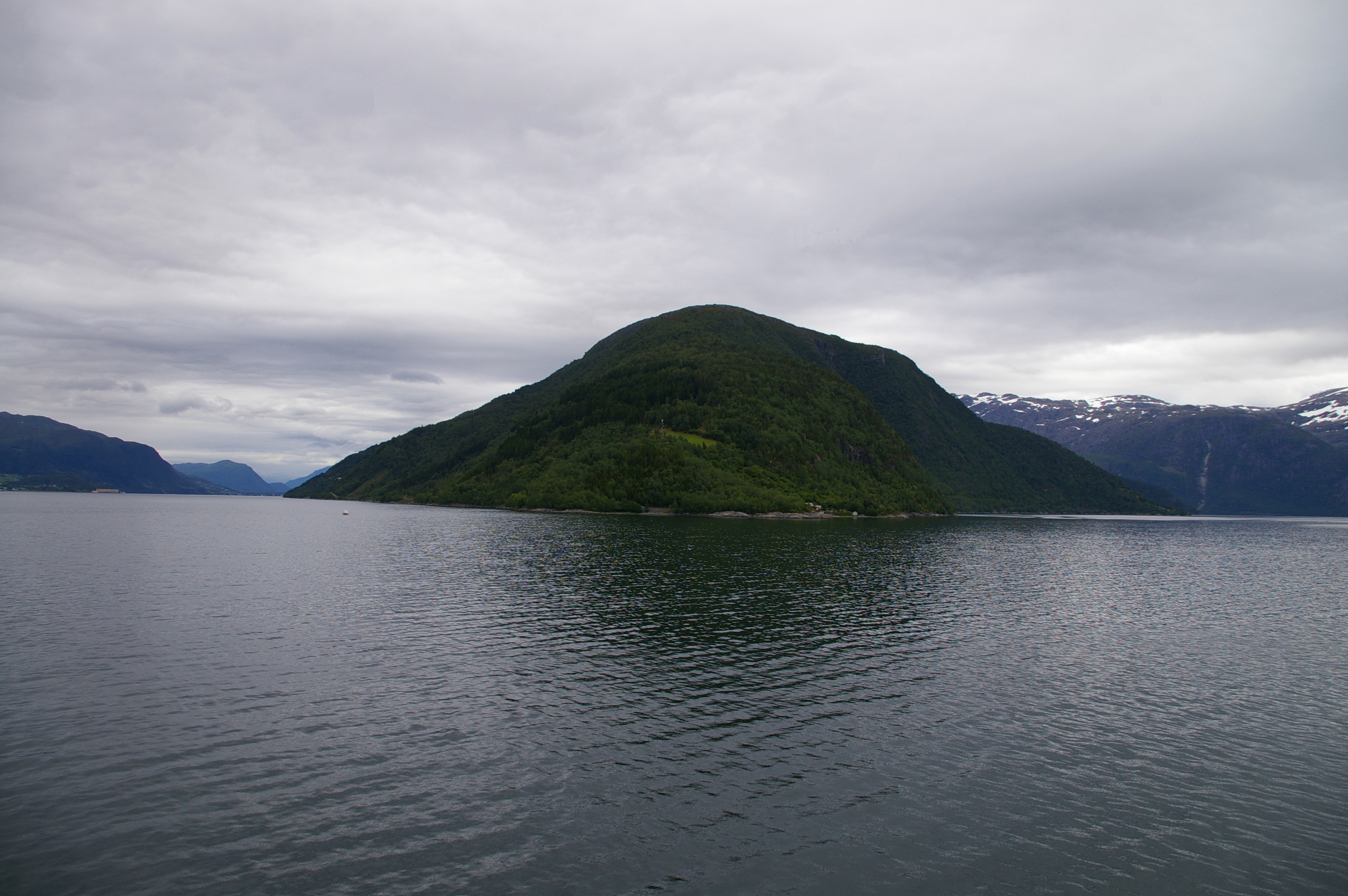 Hamneset divides Eidsfjorden from Isefjorden, both parts of Nordfjord. In Eid and Bremanger, Sogn og Fjordane, Norway